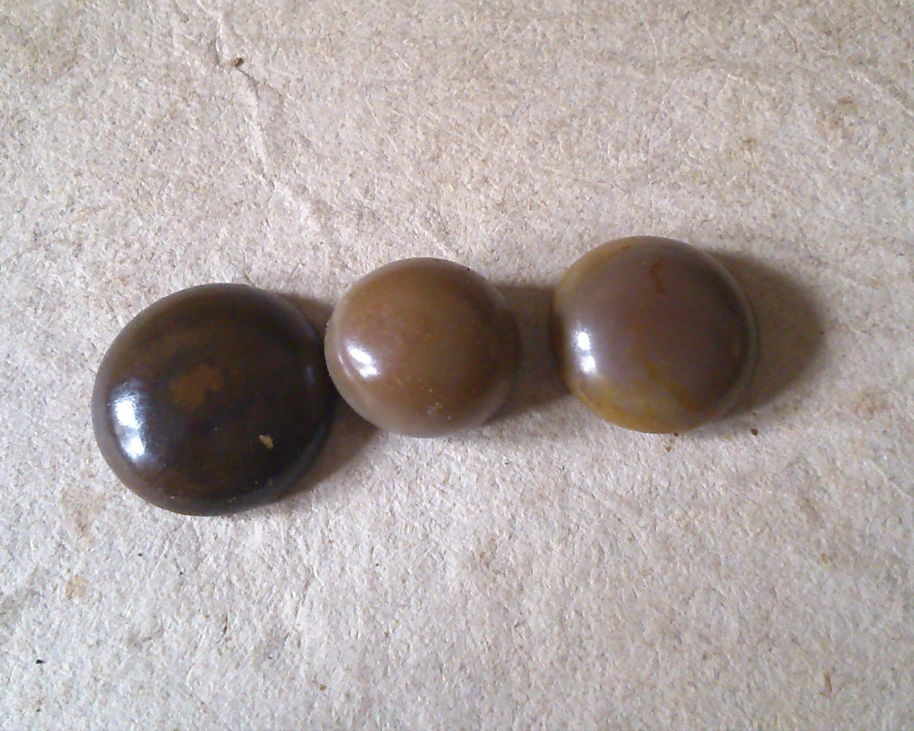 Fossil teeth of the Sphaerodus Gigas/Lepidotes Maximumus. Once thought to be toadstones formed in the heads of toads. Other information Private collection